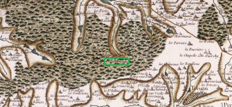 Portion of Cassini map (18th cent.) showing an area about 7 km North-South x 15 km East-West, on the southern limit of the Yonne departement and north of the Nièvre departement, both in Burgundy, France. Towns : Treigny (Yonne). In the green frame : "Grand Boutissain", with "Petit Boutissaint" just above it.